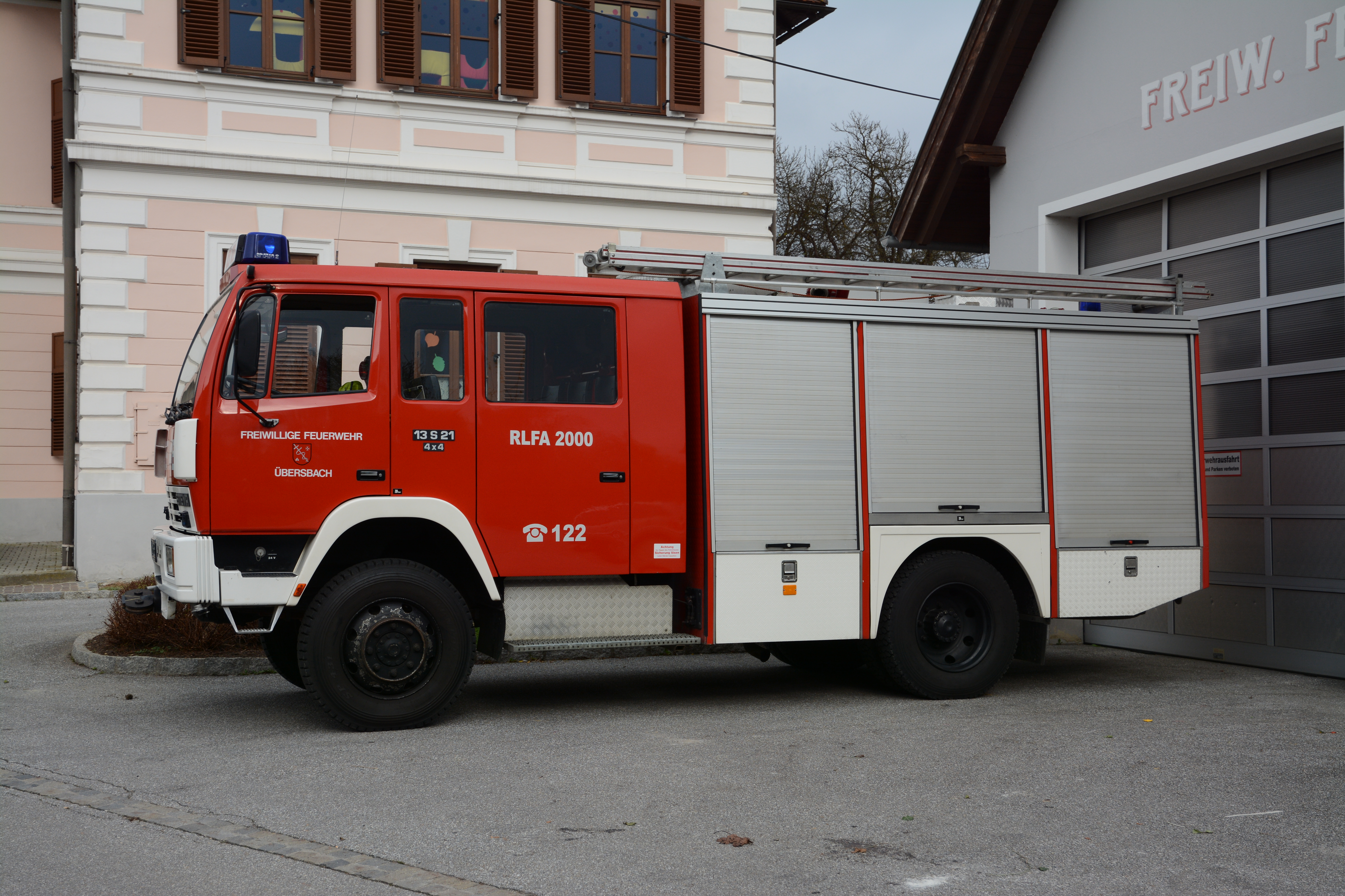 Fire engines of Styria Übersbach